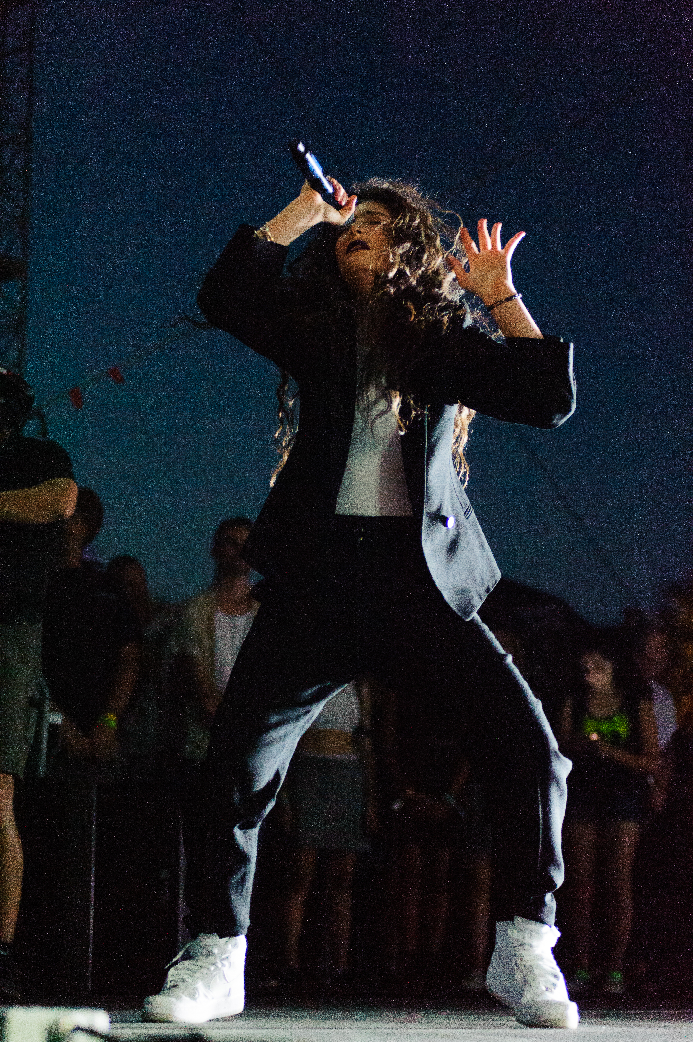 Lorde performing at Coachella on April 19, 2014.